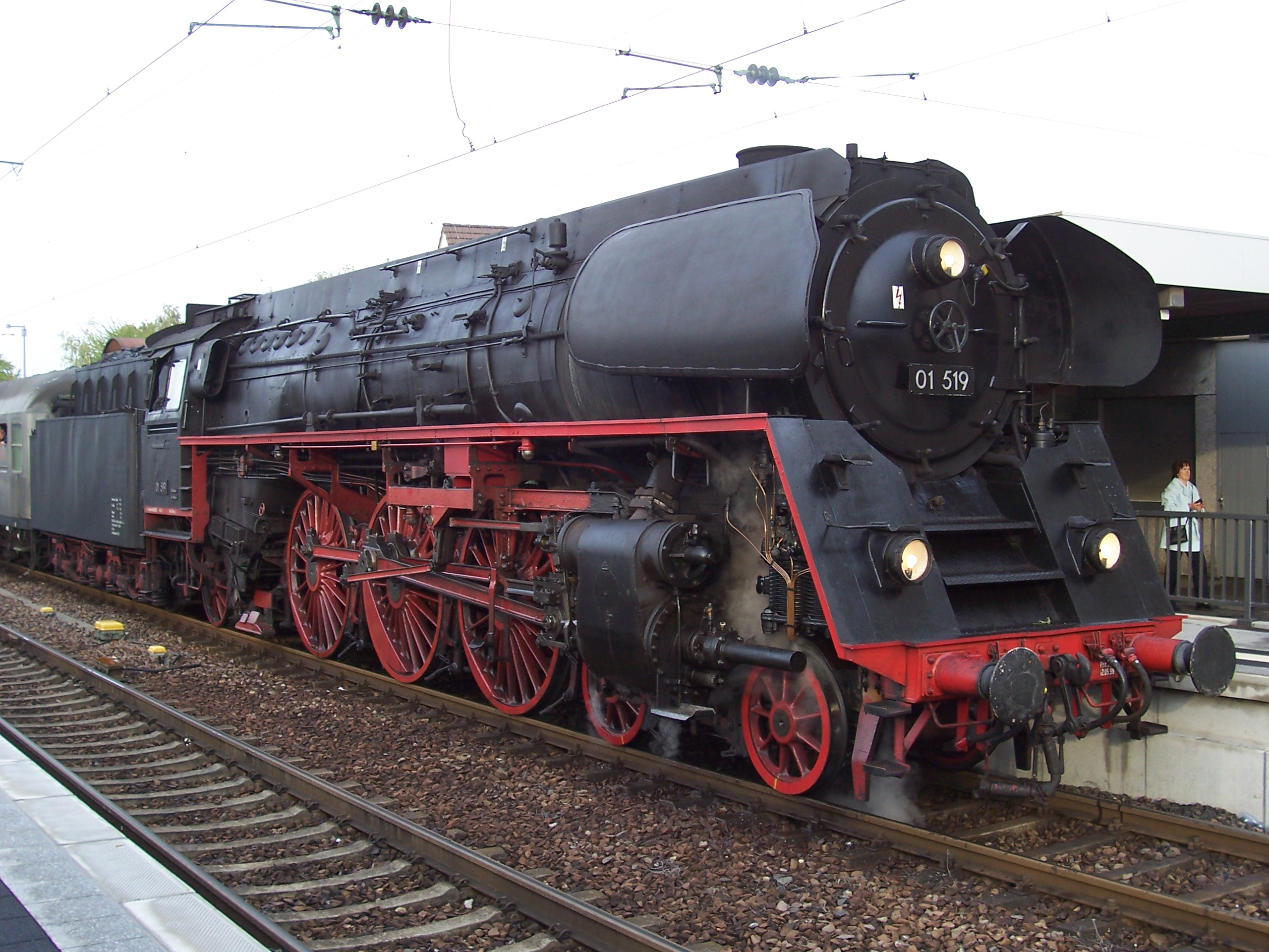 A german class 01.5 steam locomotive in Schifferstadt, Germany.